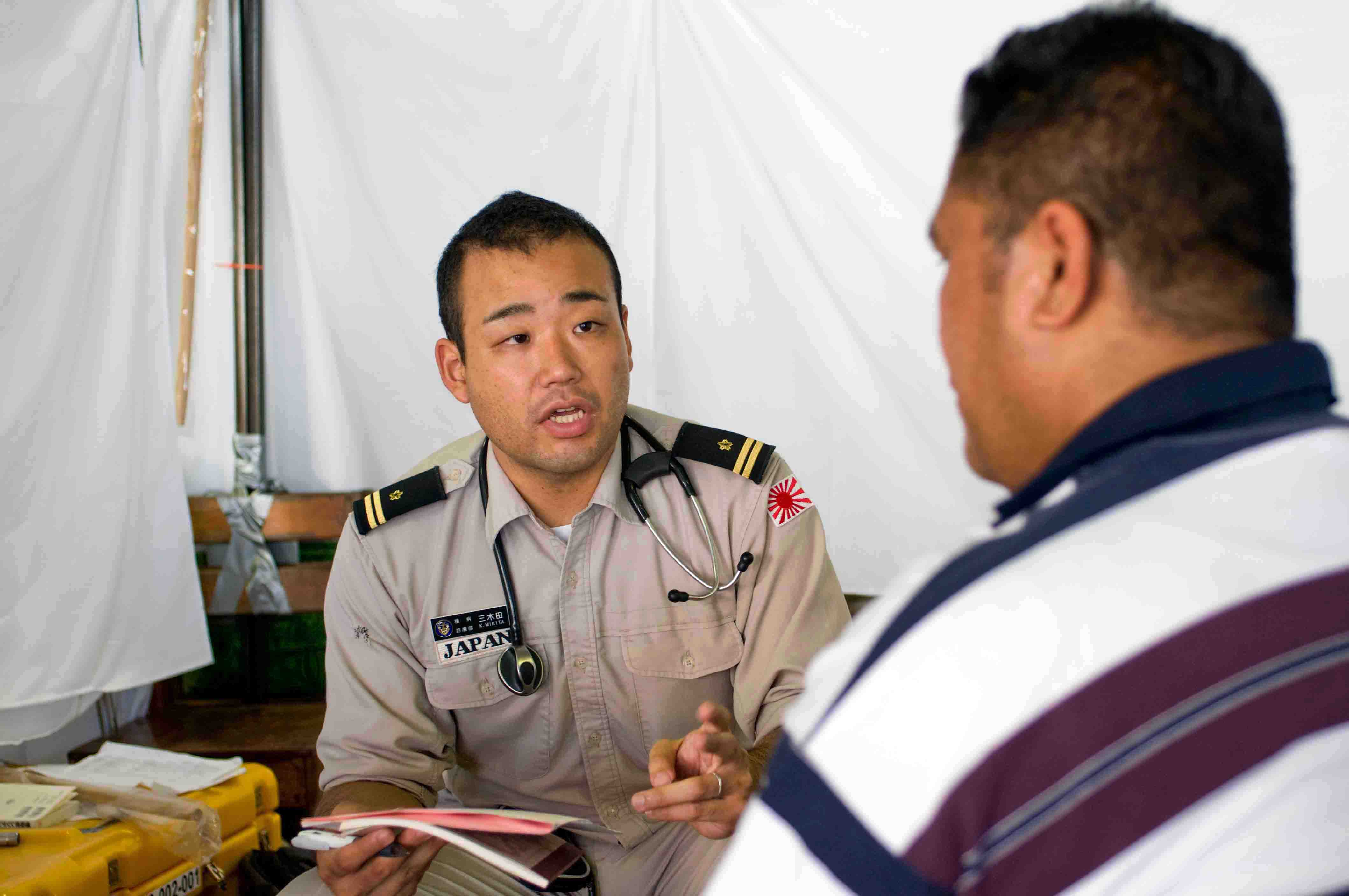 APIA, Samoa‚ (July 07, 2009) Japan Maritime Self Defense Force Lt. Kei Mikita consults locals suffering from joint pain or skin conditions at a Pacific Partnership 2009 Medical Civic Action Project (MEDCAP) site held at the Apia Community Center. Pacific Partnership is the dedicated humanitarian and civil assistance mission conducted by, with and through partner nations, non-governmental organizations and other U.S. and international government agencies to execute a variety of humanitarian civic action missions in the Pacific Fleet area of responsibility. This year Pacific Partnership will travel to Oceania, including Kiribati, Republic of the Marshall Islands, Samoa, Solomon Islands and Tonga. Military Sealift Command dry cargo and ammunition ship USNS Richard E. Byrd (T-AKE 4) serves as the enabling platform for U.S. and partner nation military and non-governmental organizations to coordinate humanitarian civic assistance efforts. (U.S. Navy photo by Mass Communication Specialist 2nd Class Joshua Valcarcel/Released)